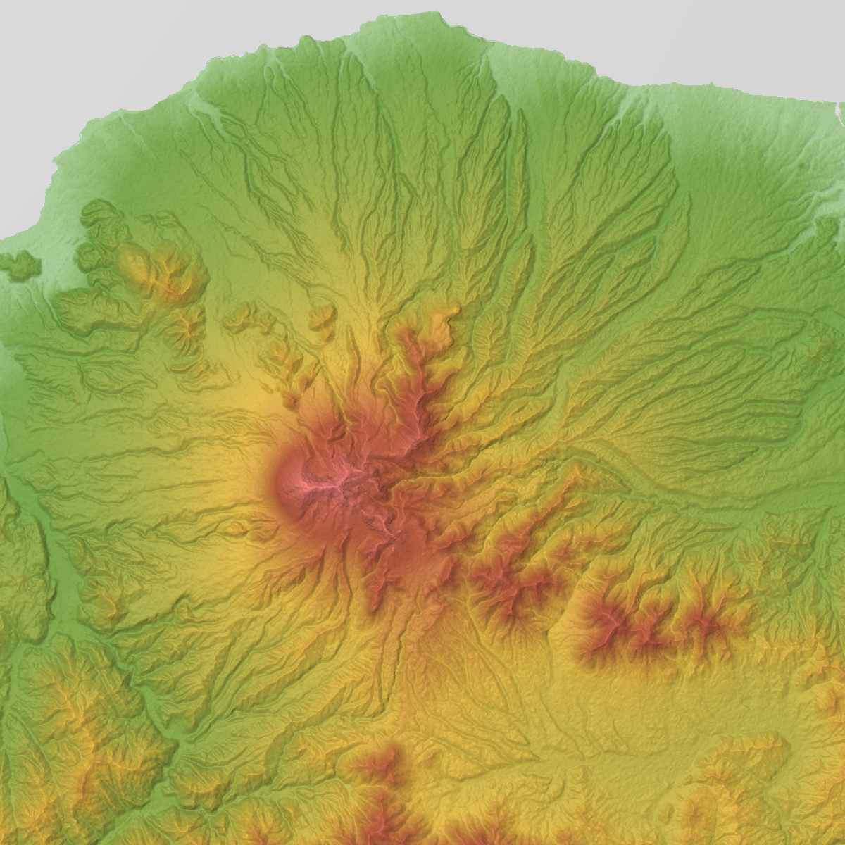 Daisen Volcano & Hiruzen Volcano Group in Chūgoku Region, Japan.